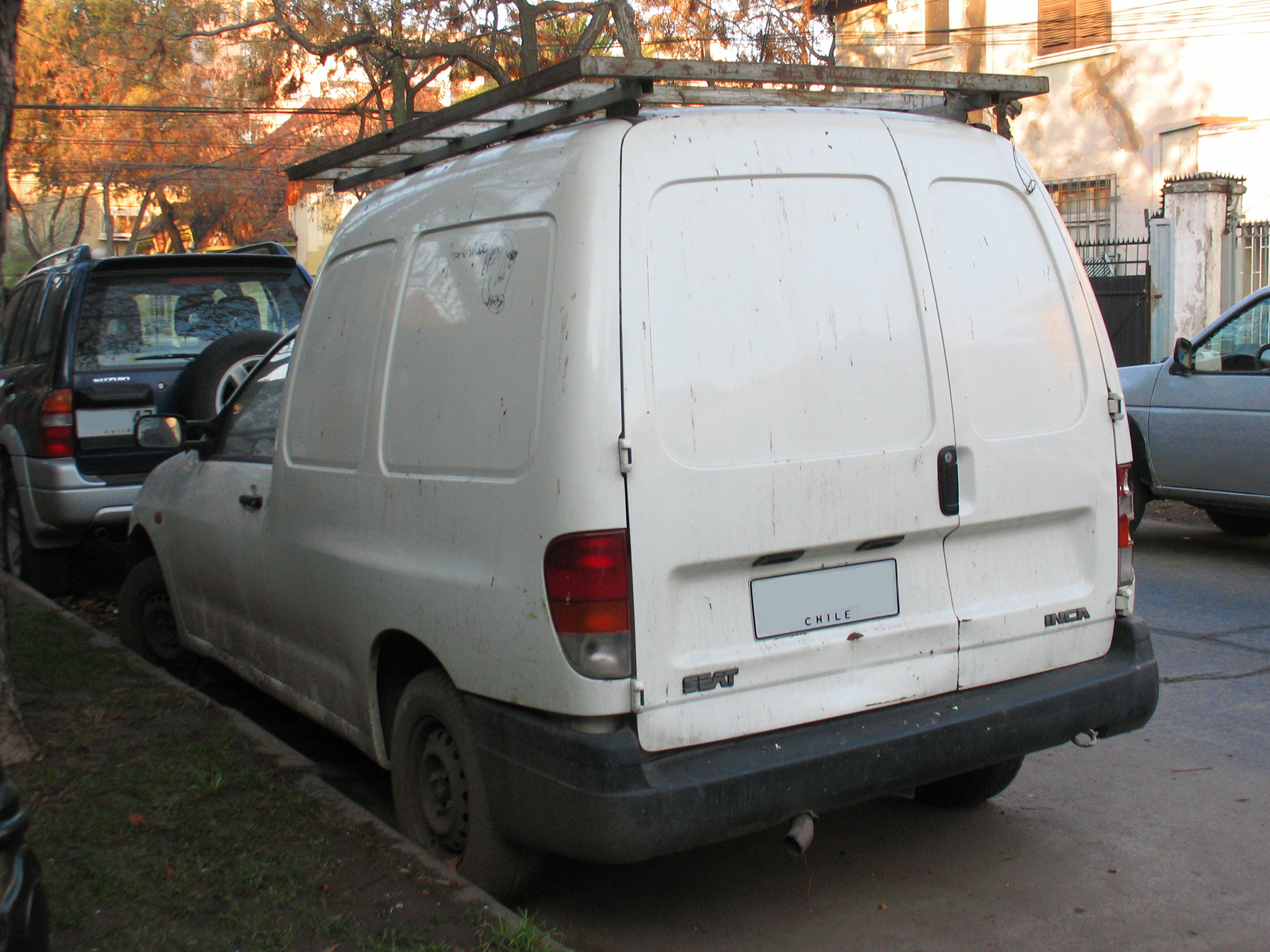 Very rare here. It's the only one i've seen